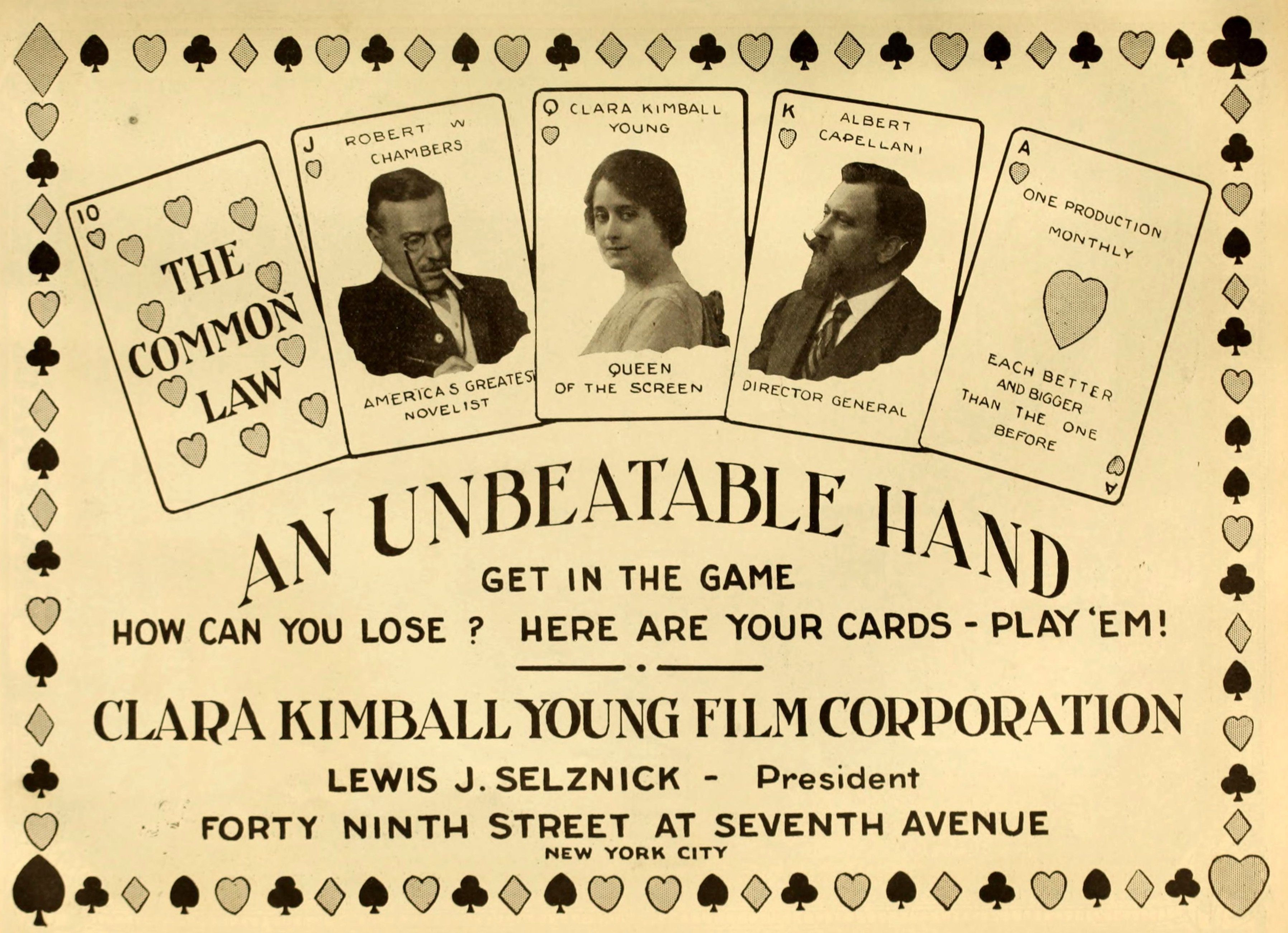 Advertisement in The Moving Picture World for the American film The Common Law (1916).